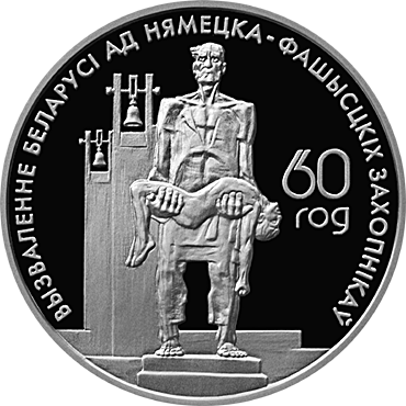 Belarus and the global community. Commemorative coins to commemorate the victims of fascism